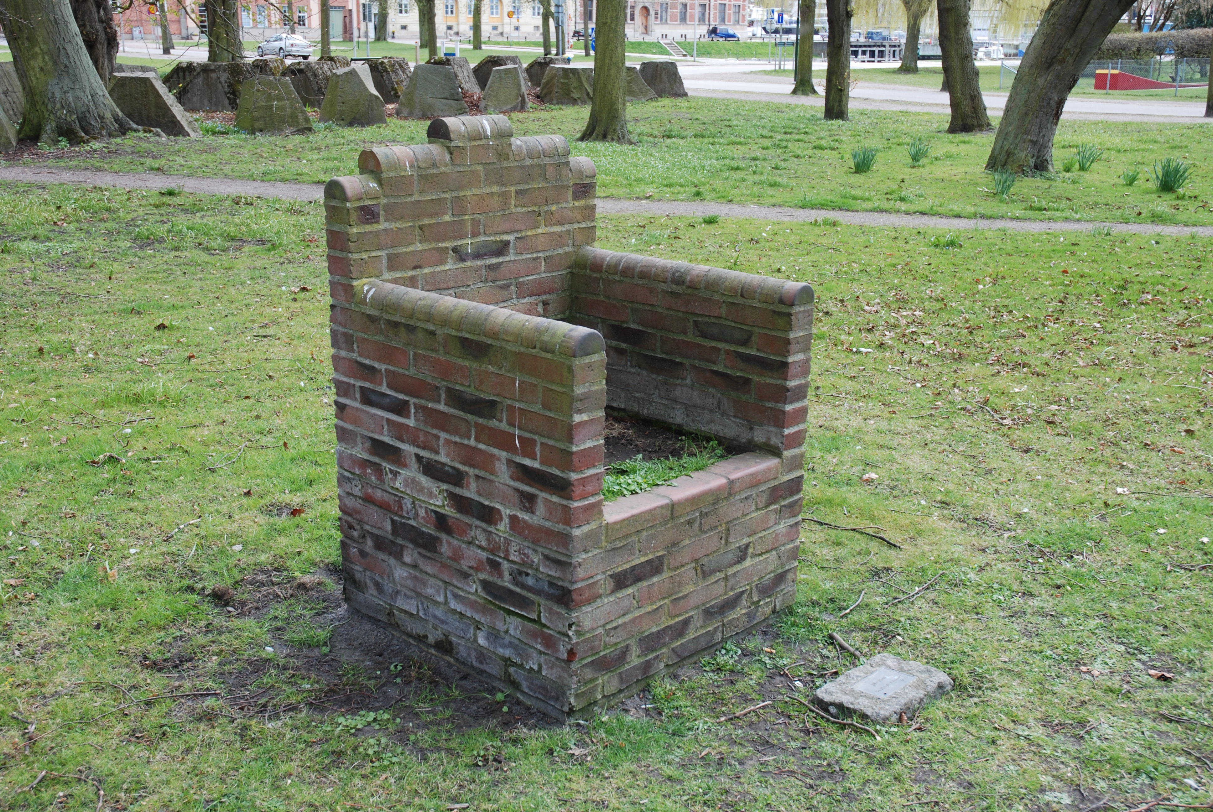 Ulla Viotti´s En plats för drömmar (Place for dreams), brick and grass, Landskrona, Sweden